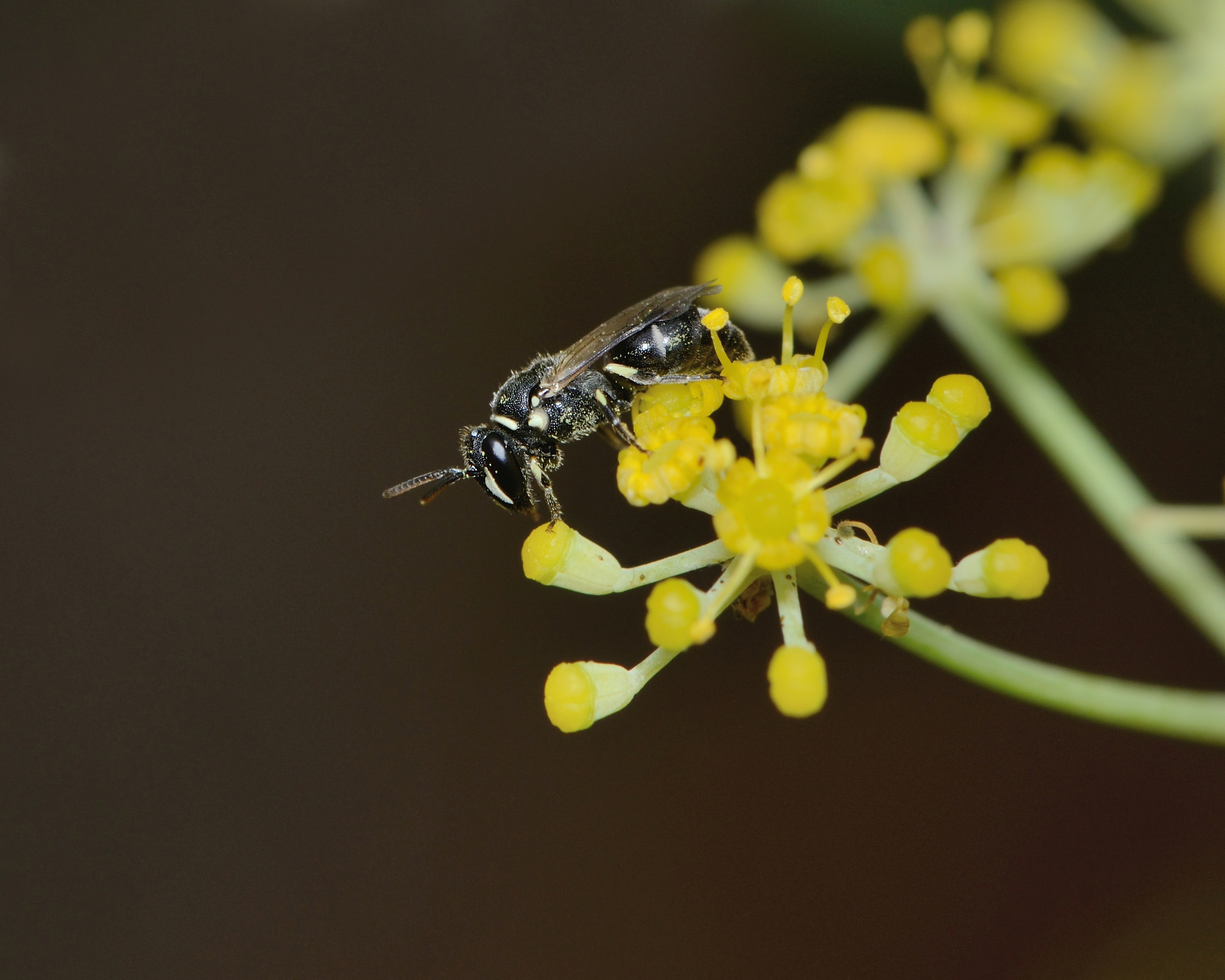 Hylaeus (Spatulariella) adspersus (Alfken, 1935), female foraging on fennel (Foeniculum vulgare), Mount Carmel, Israel, September 11, 2012.